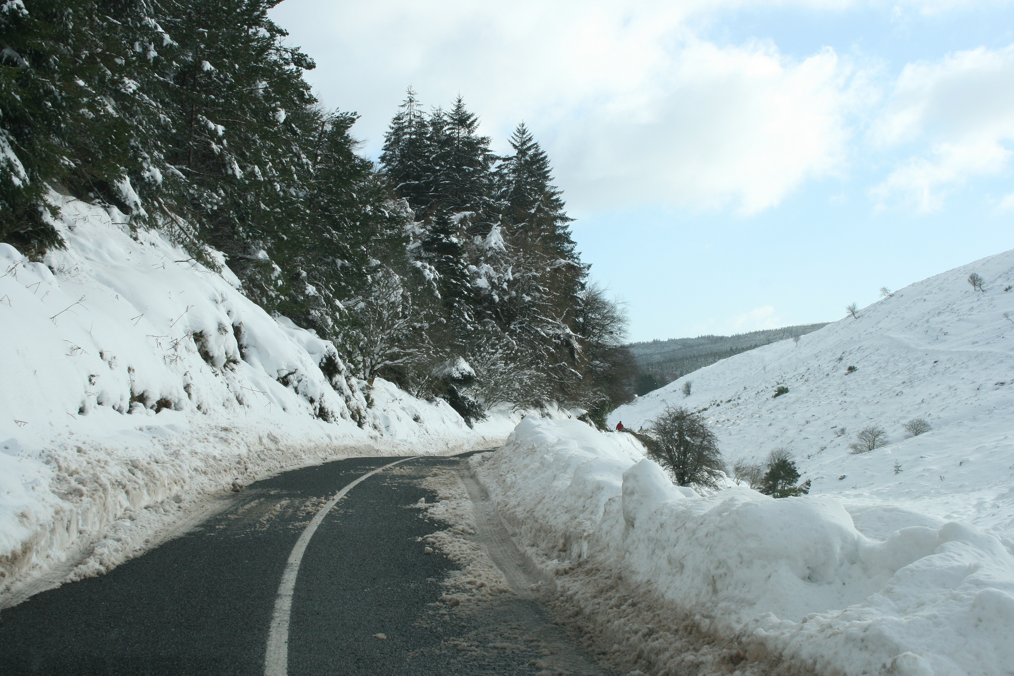 The R116 near the Pine Forest in County Dublin